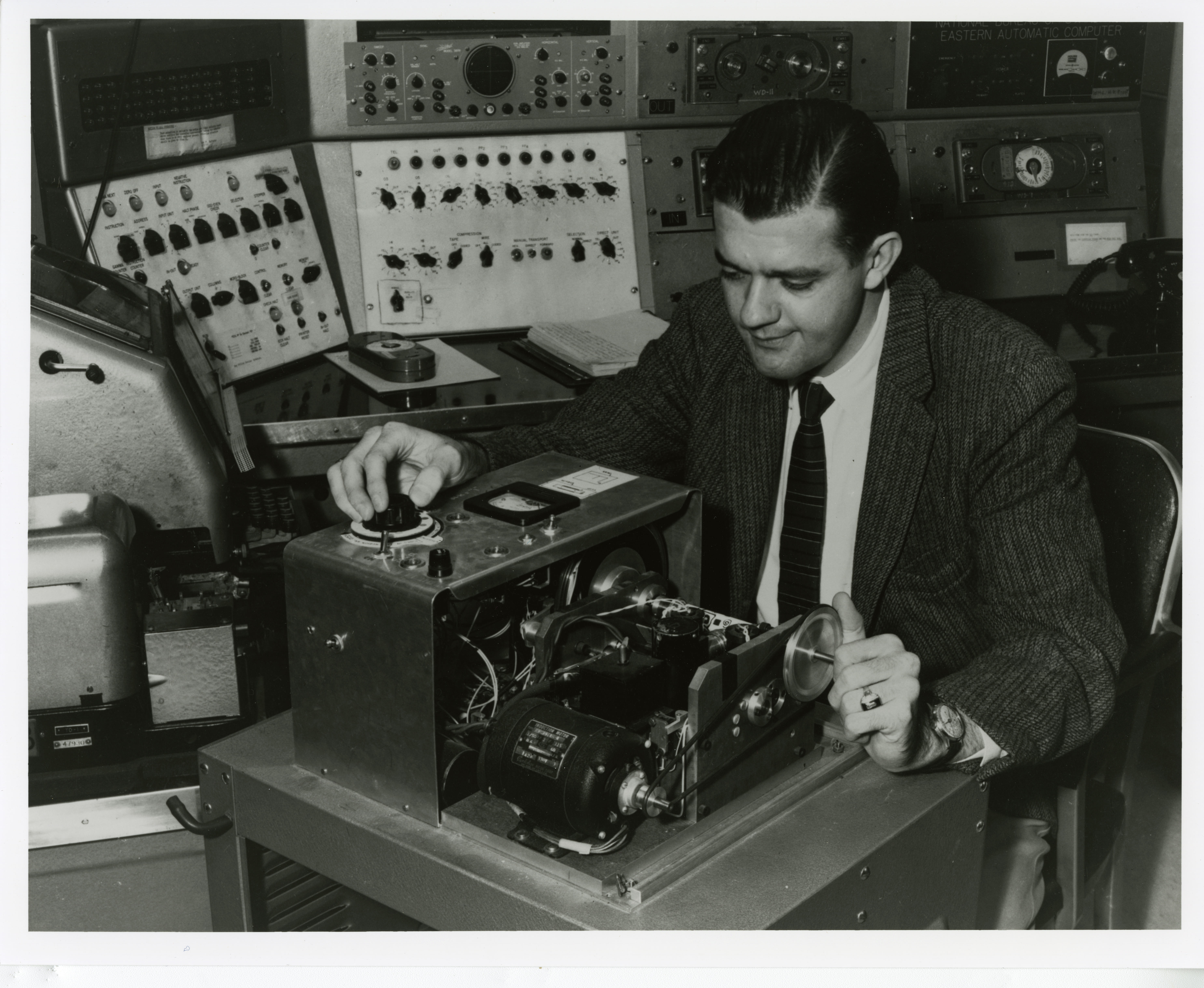 Richard B. Thomas with SEAC scanner